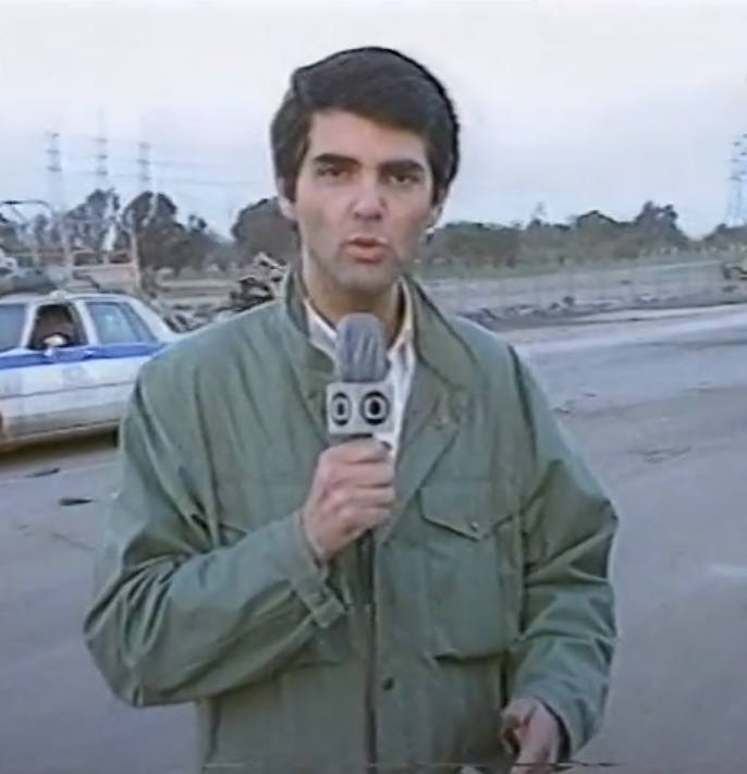 Italian journalist Sandro Petrone in 1991 in Kuwait City - television broadcast by TMC channel